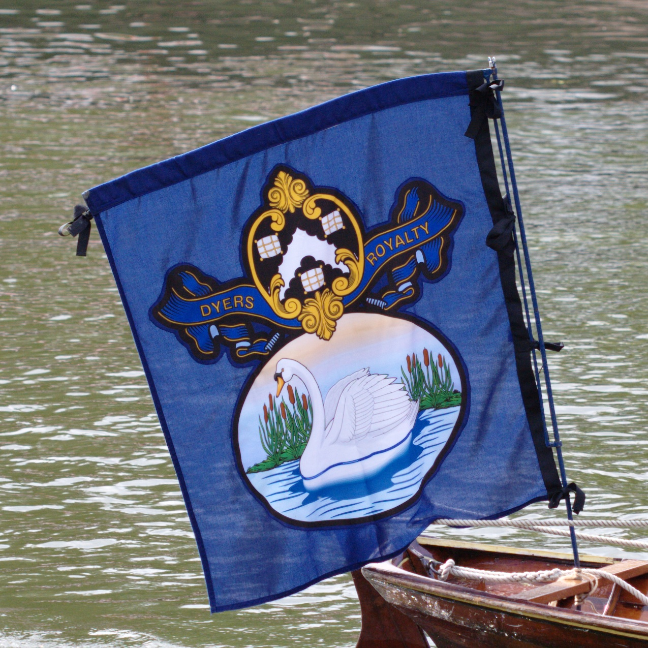 By tradition, each boat used during swan upping flies the appropriate flag. This is the Dyers' Flag (Worshipful Company of Dyers). Swan Upping at Abingdon, 2011.